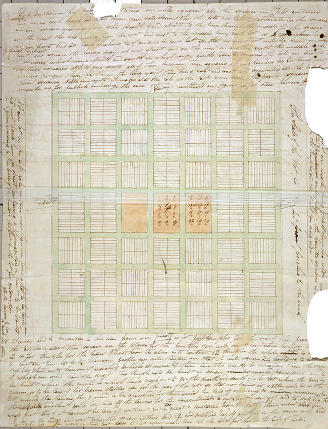 This is a picture of a document created in 1833 by Joseph Smith, to be used as a "plat" (city plan) for "Zion".